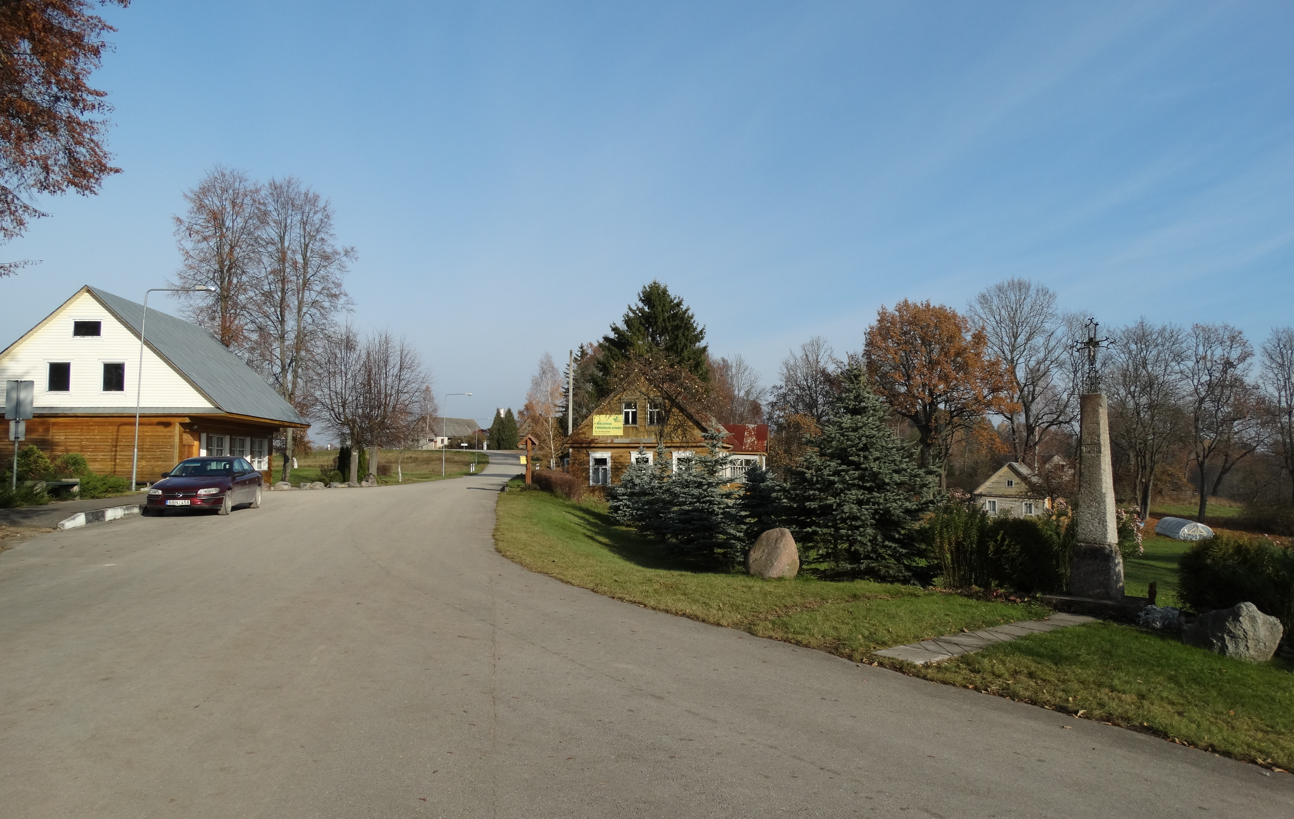 Vajasiškis, Zarasai district, Lithuania